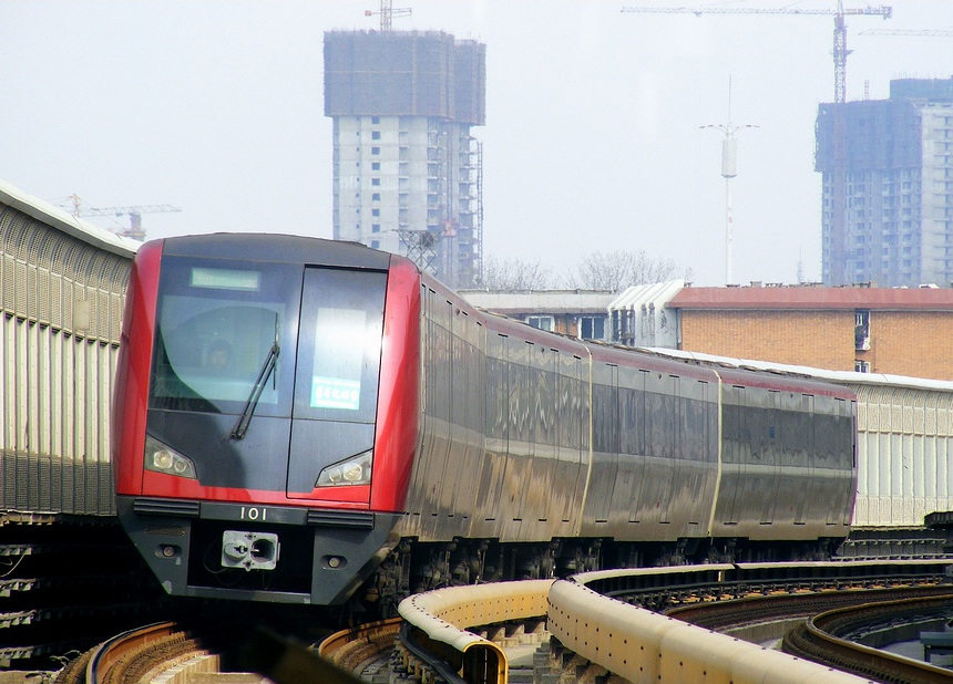 TIANJIN LINE 1,DKZ9,101